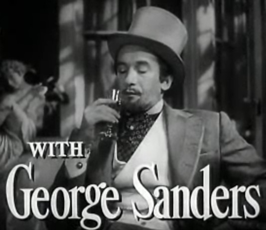 Cropped screenshot of George Sanders from the trailer for the film The Picture of Dorian Gray.